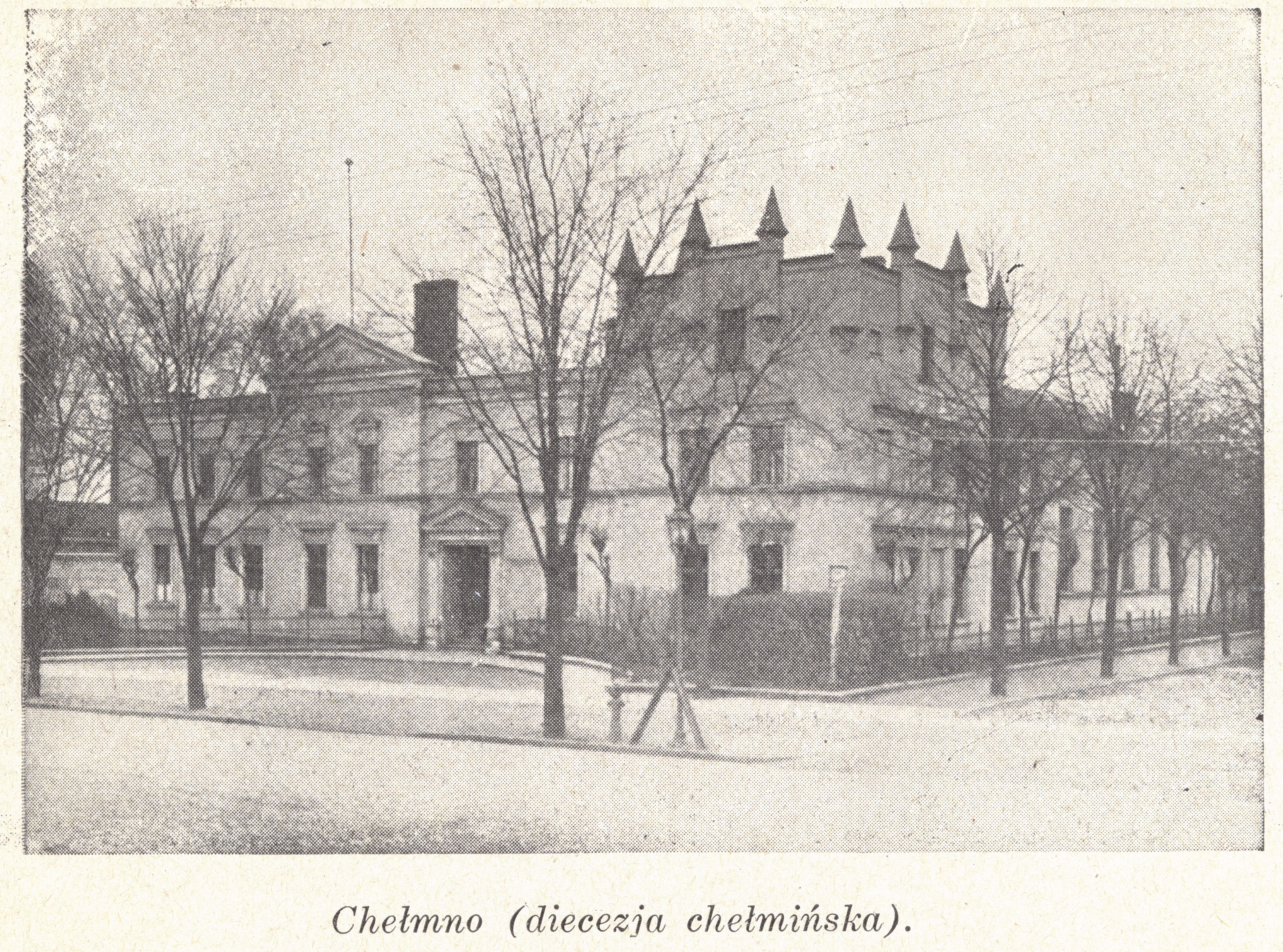 Pallottine house in Chełmno, Poland before II World War.